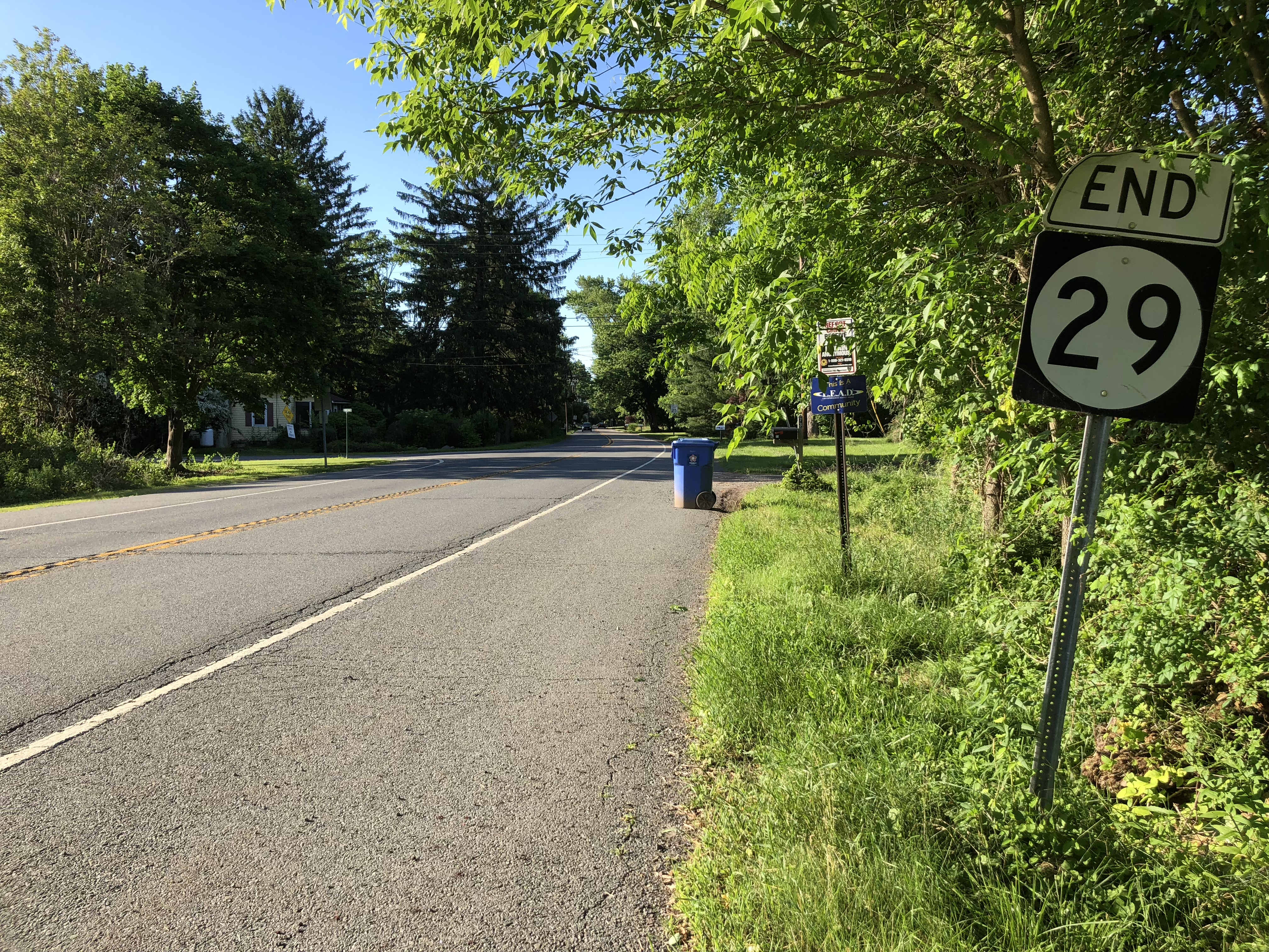 View north along New Jersey State Route 29 (Trenton Avenue) just south of Washington Street in Frenchtown, Hunterdon County, New Jersey